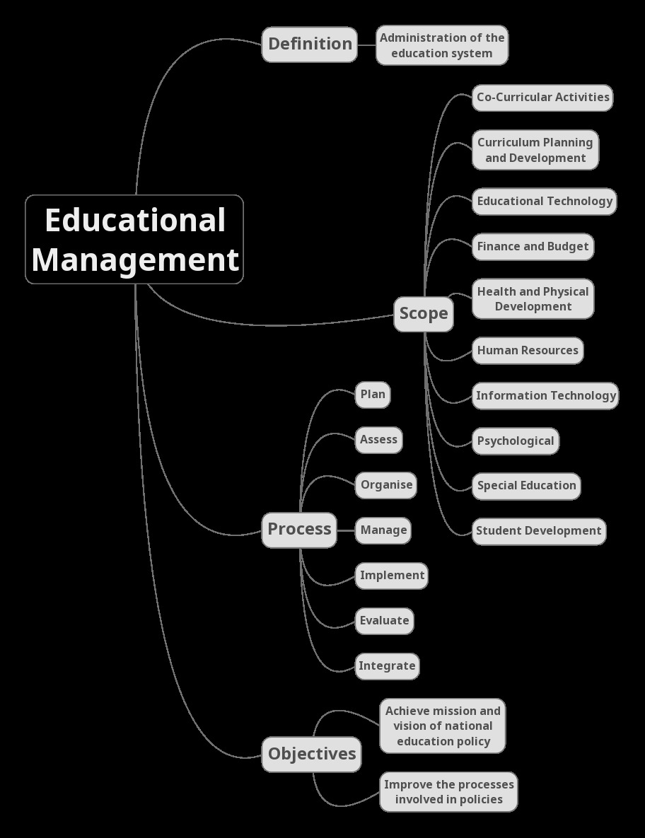 A mindmap containing the key aspects of Educational Management